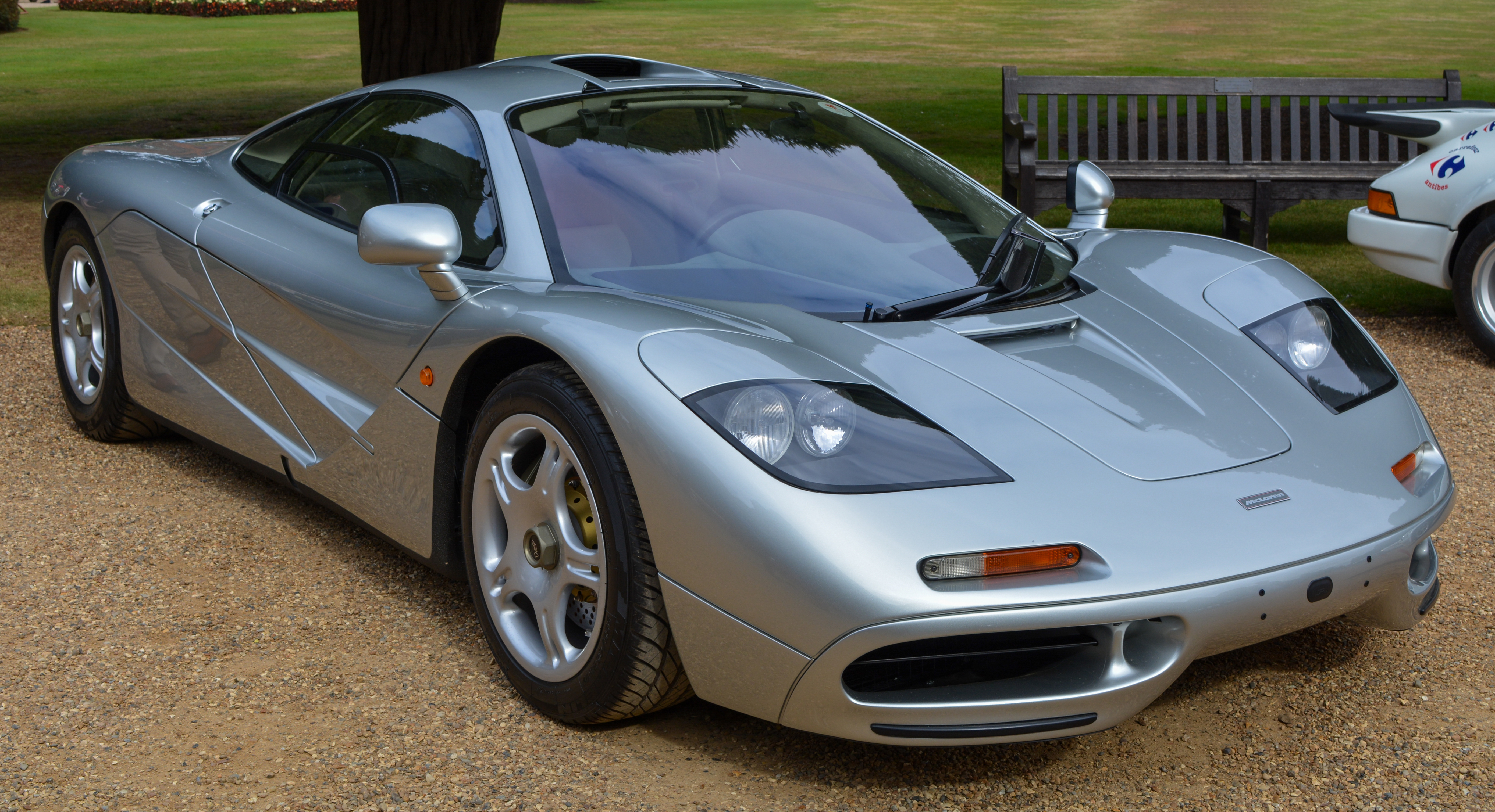 1996 McLaren F1 Chassis No 63 6.1 Front (Restored and rebuilt by MSO) Taken at the Concours d'Elegance Hampton Court 2019